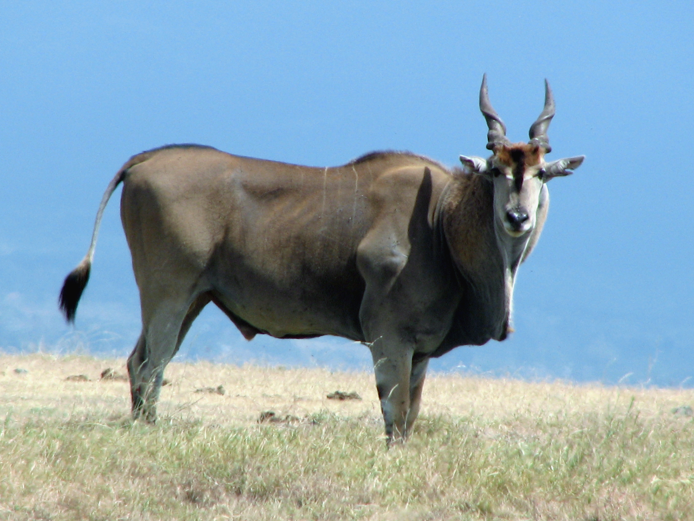 Taken on Safari in Africa